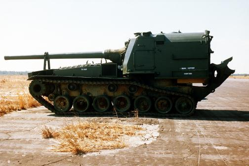 M53 155mm self-propelled Howitzer, Elgin AFB, FL, 1979